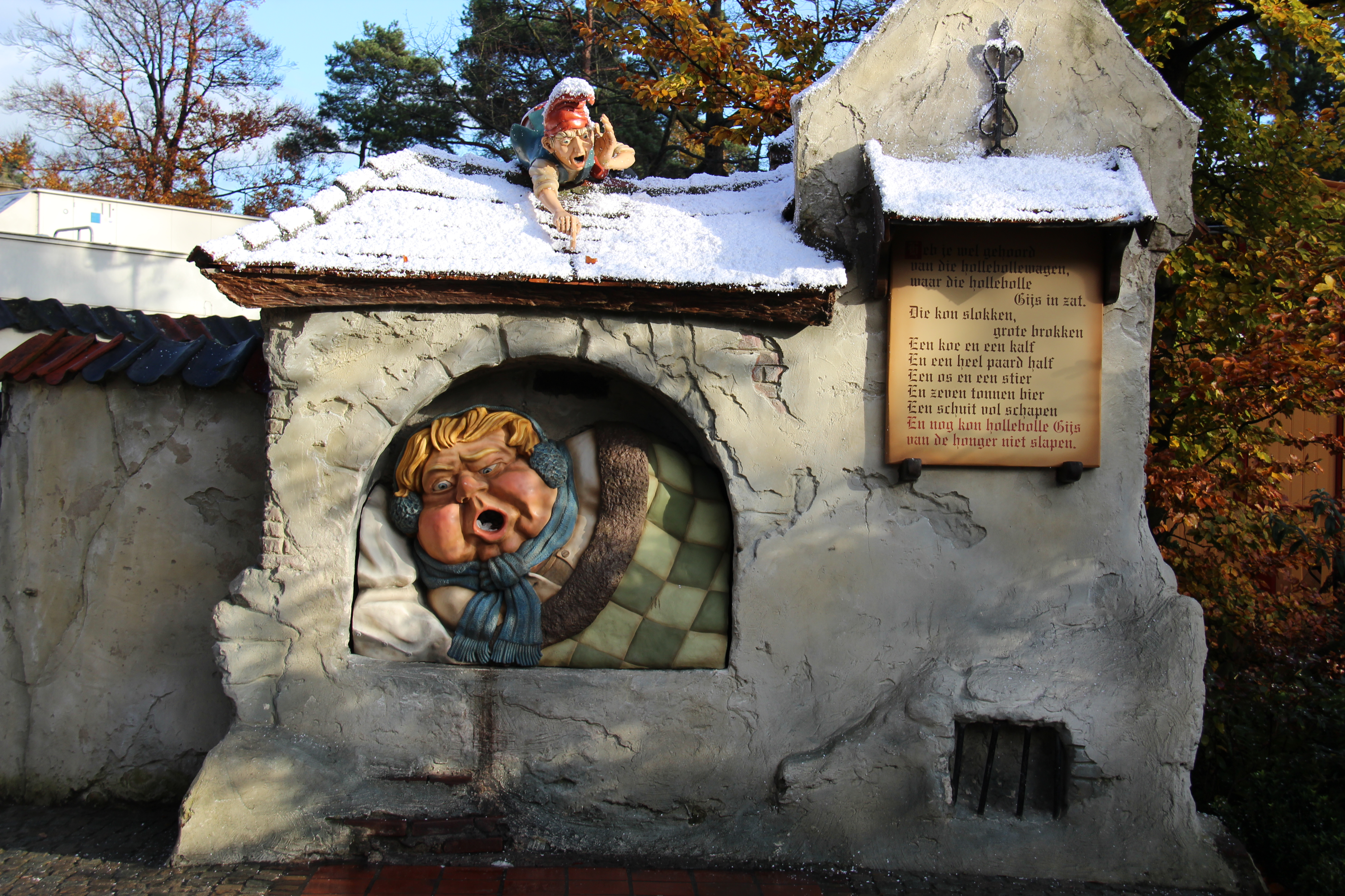 Geeuwende Gijs at the Efteling